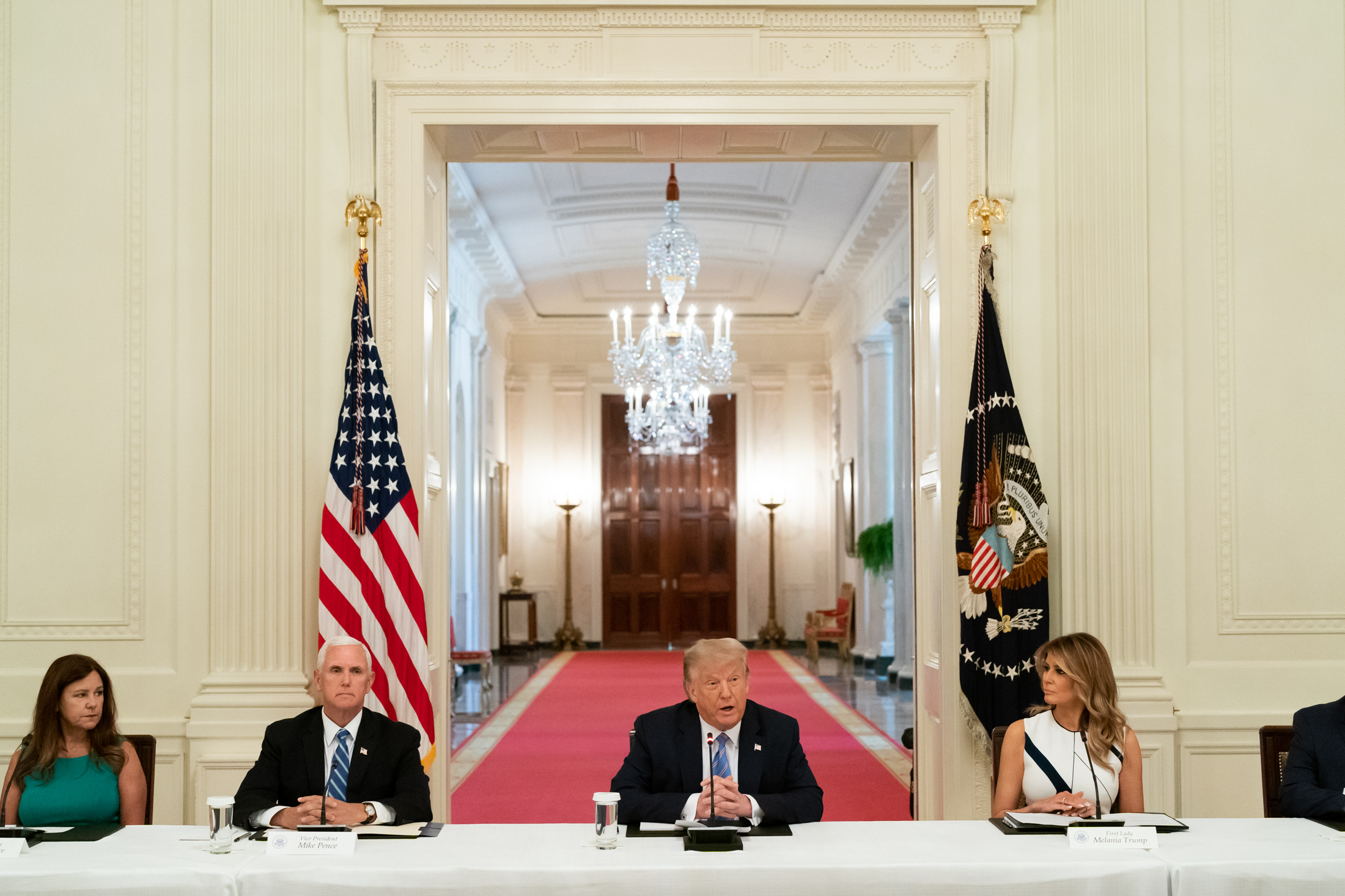 President Donald J. Trump, joined by First Lady Melania Trump, Vice President Mike Pence, and Second Lady Karen Pence, delivers remarks during the National Dialogue on the Safe Reopening of America's Schools event Tuesday, July 7, 2020, in the East Room of the White House. (Official White House Photo by Andrea Hanks)